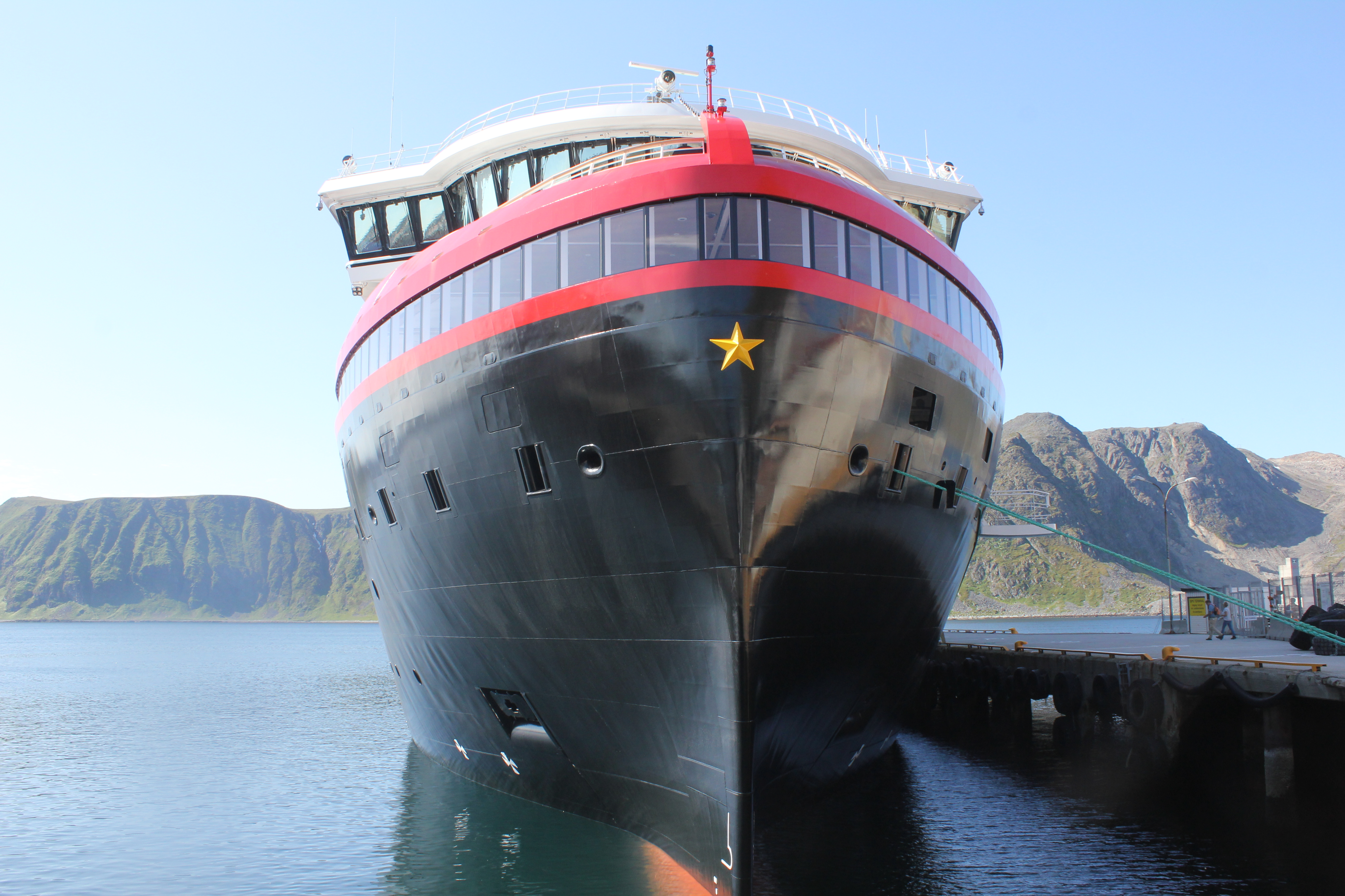 Senaste elhybriden